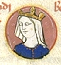 Marguerite of Provence